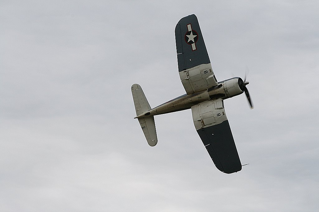 Goodyear built Corsair FG-1D cn 3305. Notice the clipped wing tips, a characteristic of the carried British Corsairs ; Bureau number :92044; Wartime registration :NZ5648; Current civil registration :ZK-COR; Owner :Old Stick & Rudder Company (as of 2010); Place : at Wings Over Wairarapa show